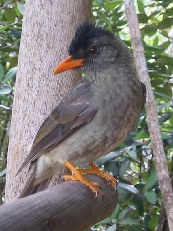 Seychelles Bulbul (Hypsipetes crassirostris) Taken in Jan 2005 at Vallée de Mai on Praslin Island, Seychelles By Tanuki77.